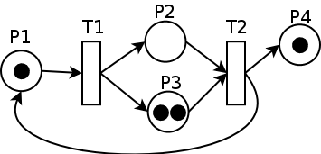 A detailed to show how the state-transition matrix looks like, and to visualise the state-transition list. This piece of art has been made by me, , with dia (itself a GPL application), exporting to png. Please ask me if you need the .dia file.